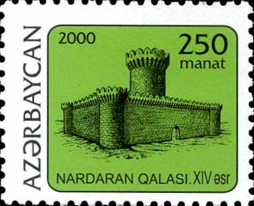 Nardaran Qalasi. Stamp of Azerbaijan